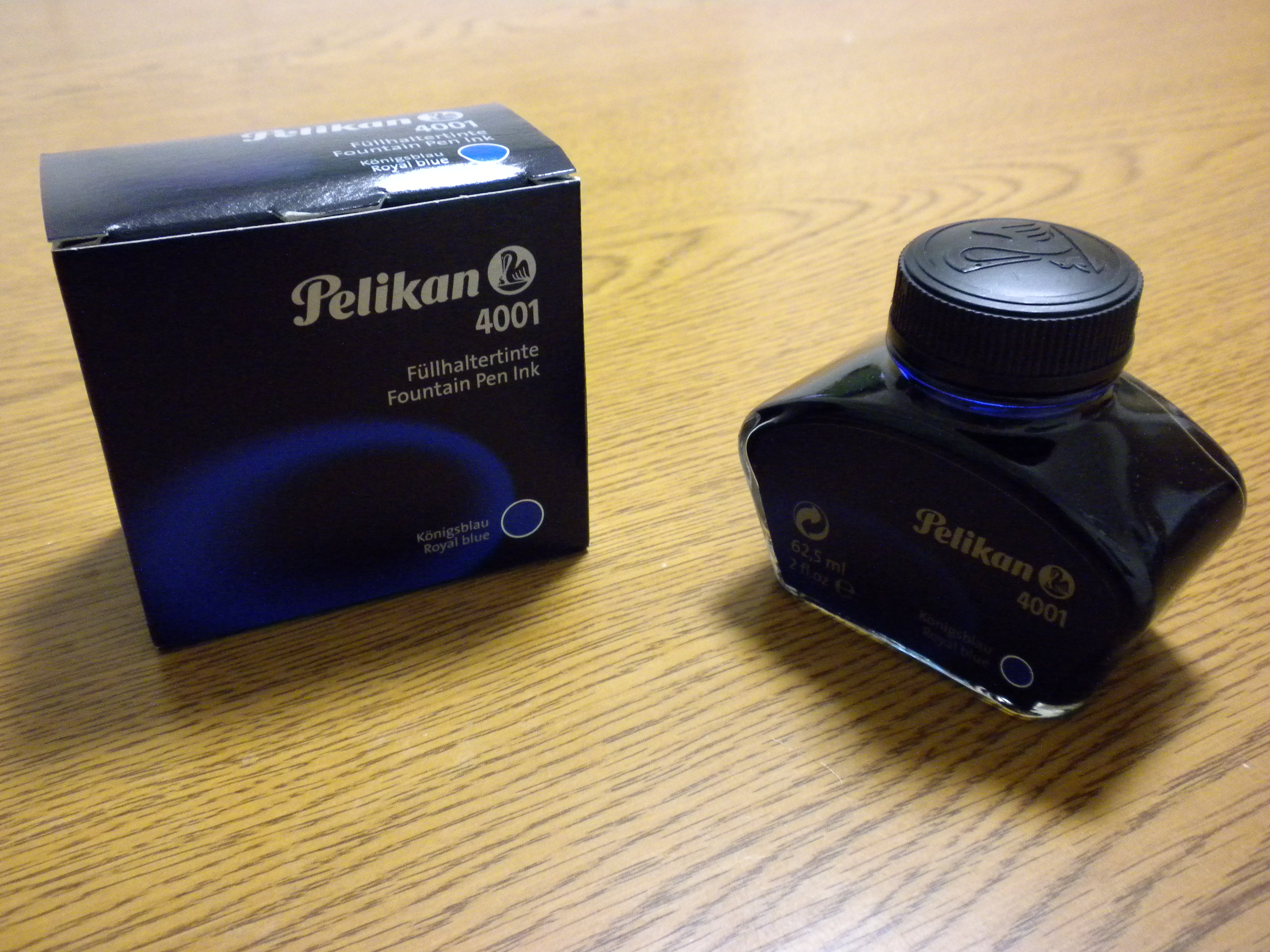 Pelikan ink